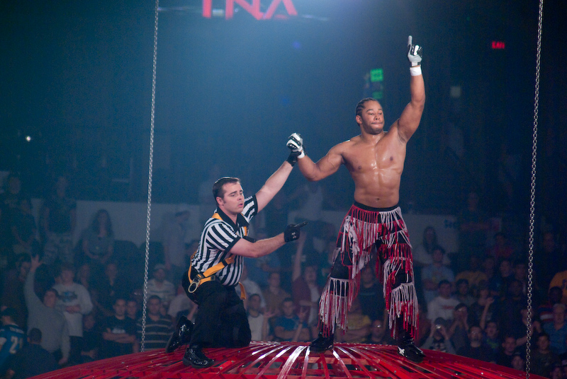 Wrestler Jay Lethal standing victoriously on top on a cage with referee Rudy Charles raising his hand. From the pay-per-view event Bound for Glory IV.